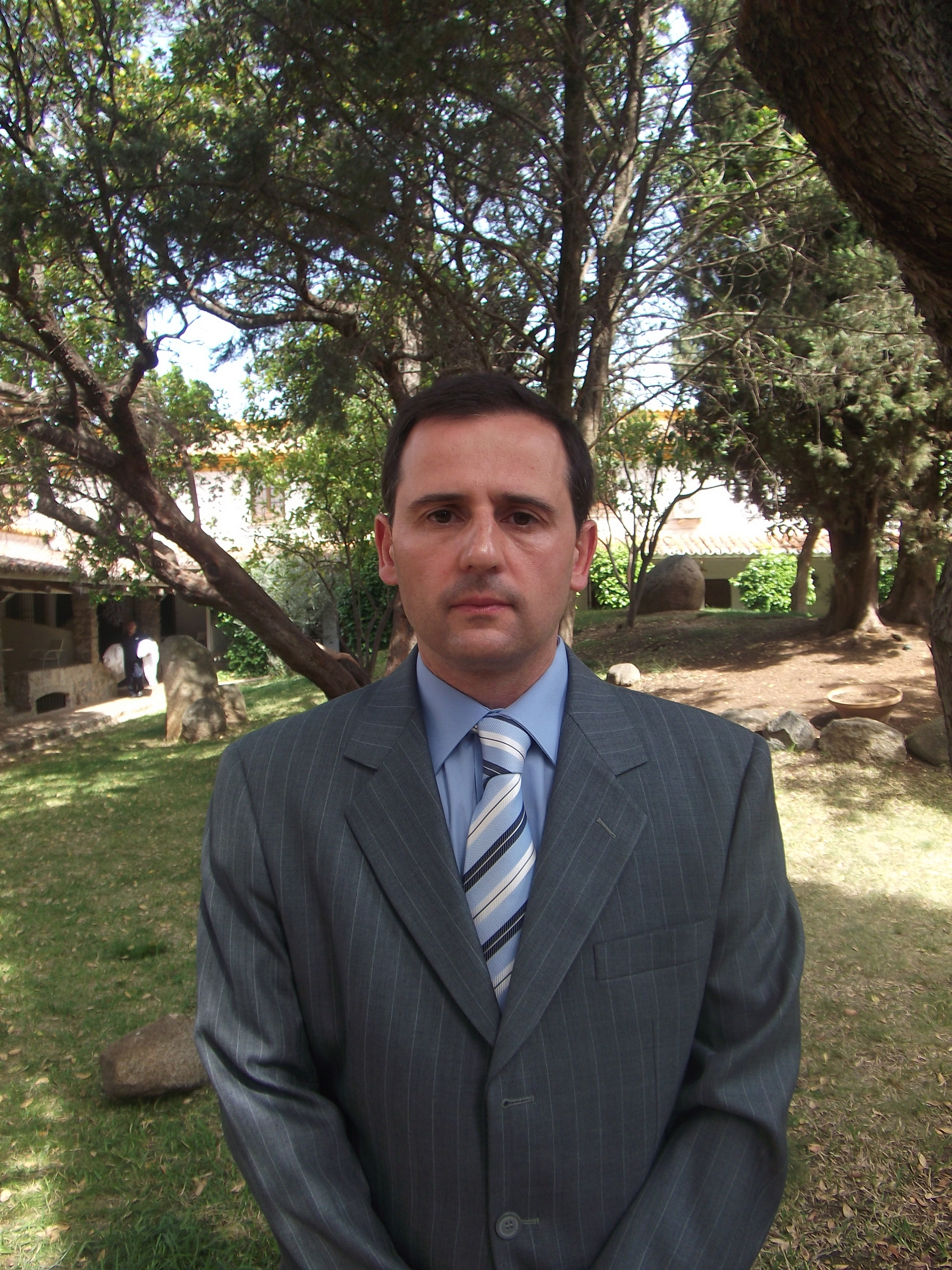 This is a photo of Dr.García Hernán.